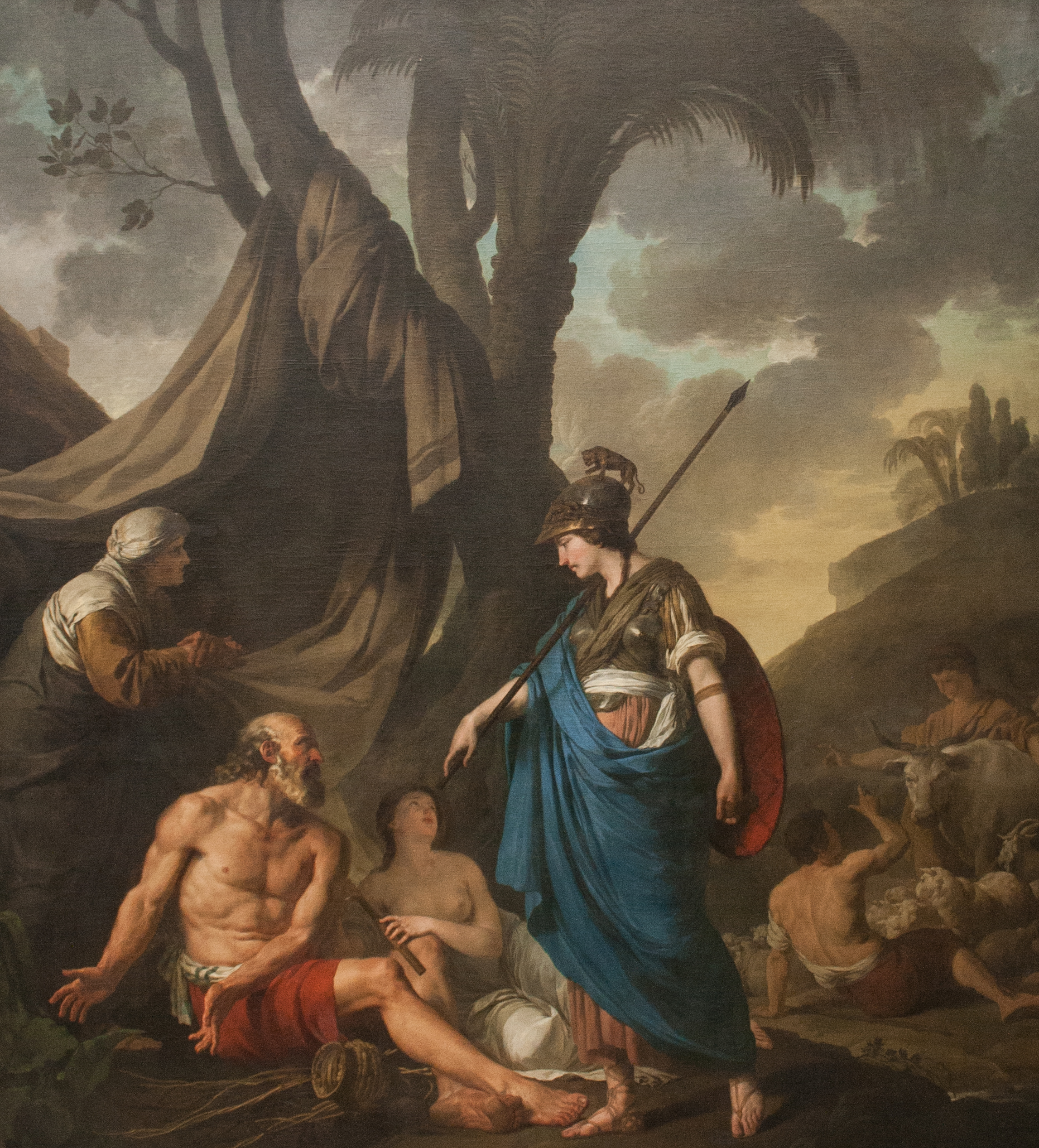 (After Torquato Tasso)